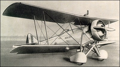 Italian Breda Ba.25 trainer aircraft